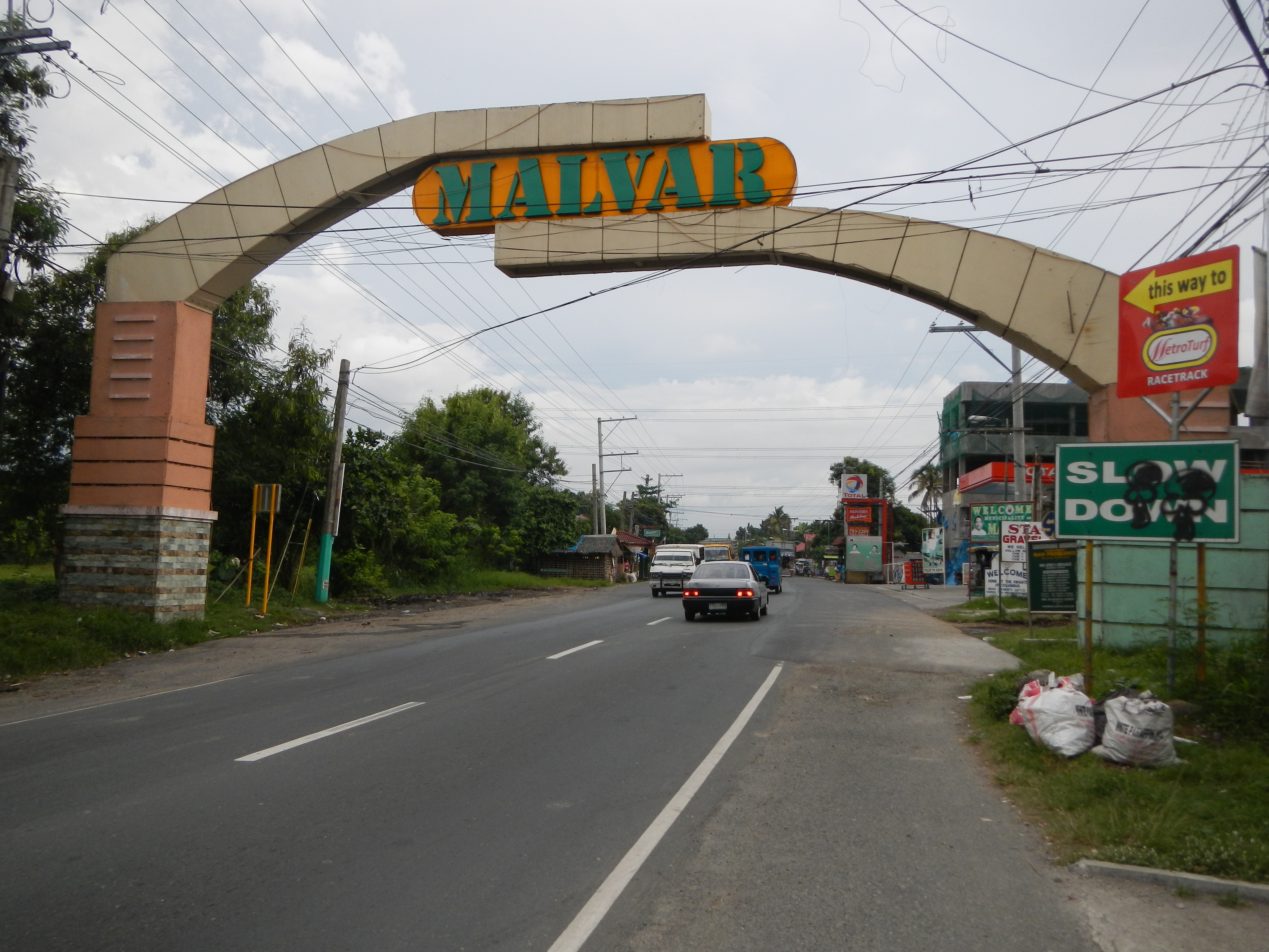 Boundary Barangays (San Pioquinto - Efren V. Hernandez - Mark Anthony Licarte of Malvar, Batangas [1] ) & Barangay Darasa in Tanauan, Batangas [2] - The City of Tanauan is a first class city in the province of Batangas, Philippines. According to the latest census, it has a population of 152,393 inhabitants in 30, 354 households; incorporated as a city under Republic Act No. 9005, signed on February 2, 2001, and ratified on March 10, 2001. [3] Coordinates: 14°5'28"N 121°5'51"E [4] Geographical location: Batangas, Region 4, Philippines, Asia Geographical coordinates: 14° 4' 58" North, 121° 9' 2" East This place is situated in Batangas, Region 4, Philippines, its geographical coordinates are 14° 4' 58" North, 121° 9' 2" East and its original name (with diacritics) is Tanauan. Website